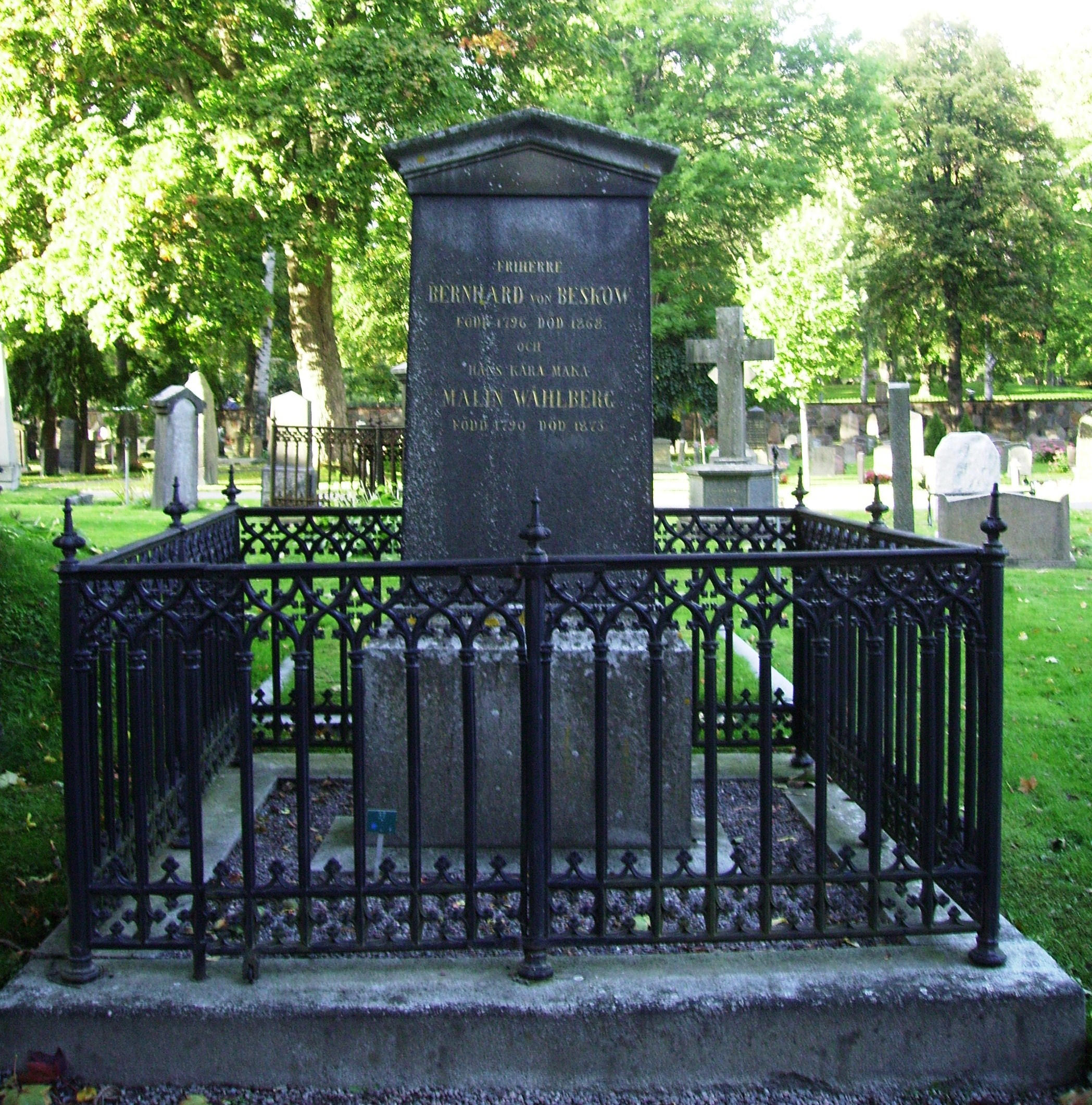 Picture of Bernhard von Beskow's grave at Solna kyrkogård